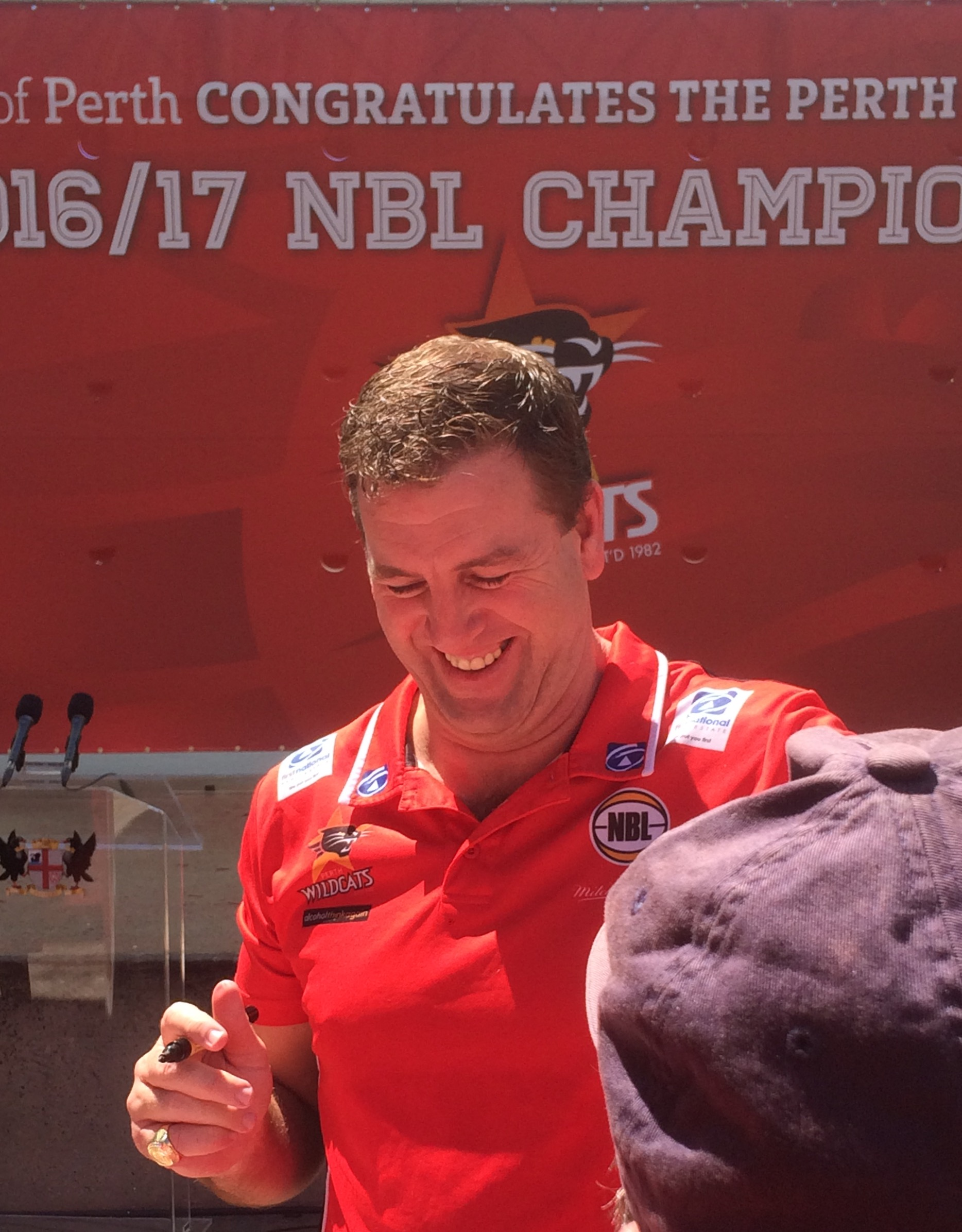 Coach Trevor Gleeson at the Perth Wildcats' 2017 championship celebration